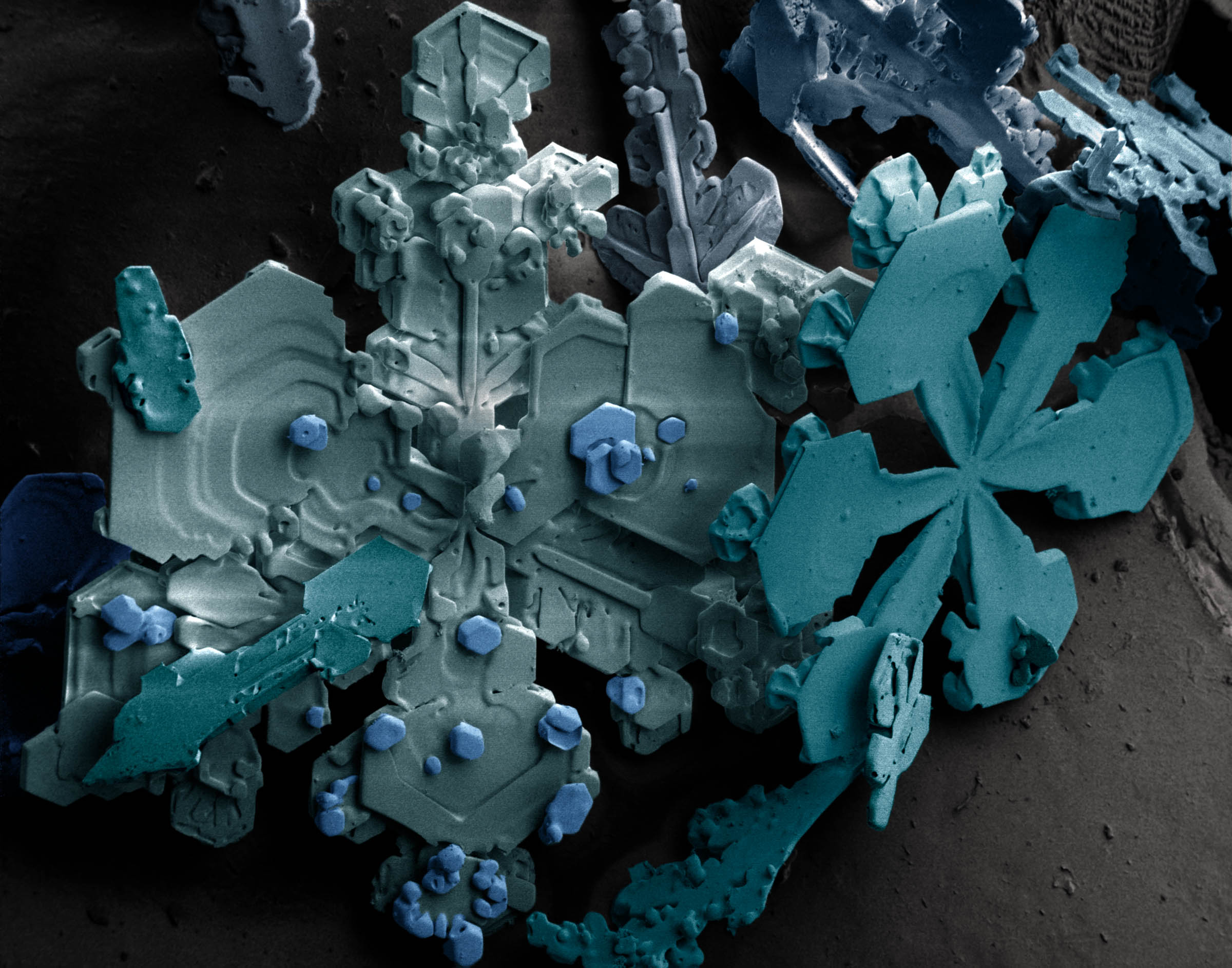 Snow flakes highly magnified by a low-temperature scanning electron microscope (SEM). The colours are called "pseudo colours", they are computer generated and are a standard technique used with SEM images.